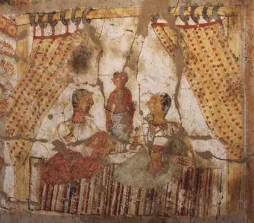 Detail of a wall painting from Dongola, the capital of the Nubian kingdom of Makuria, showing a financial deal.